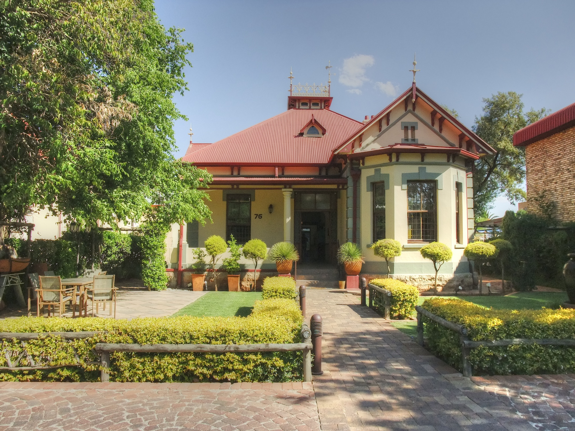 76 Lombard Street, Potchefstroom (new street name: James Moroka Ave) This media shows a South African Protected Site with SAHRA file reference 9/2/256/0003.